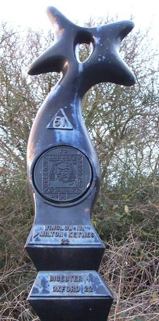 Millennium Milepost - Close-up (top). A close-up of the top of 303722 (and 303725) This milepost stands on the county boundary of Buckinghamshire & Oxfordshire and according to wording lower down: "This is one of 1000 mileposts funded by The Royal Bank of Scotland to mark the millennium and the creation of the National Cycle Network" The 51 in the triangle at the top signifies that it is on Sustrans Route 51.